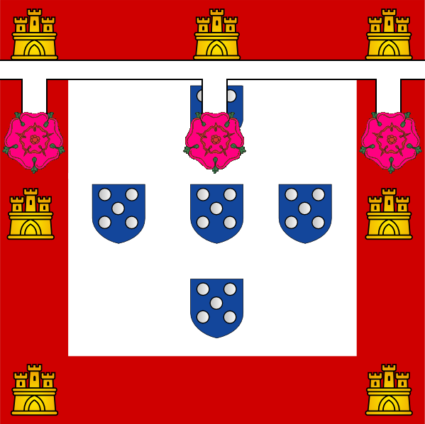 Banner of Arms of Prince of Beira, old title given to the Portuguese Heir Apparent